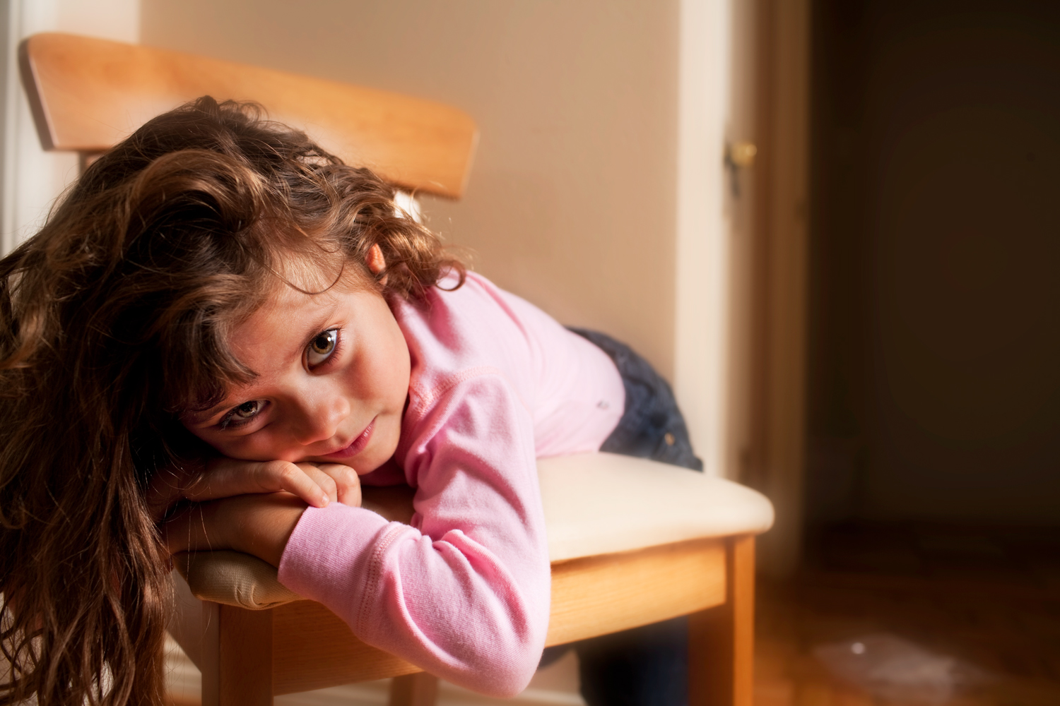 Bored young girl.